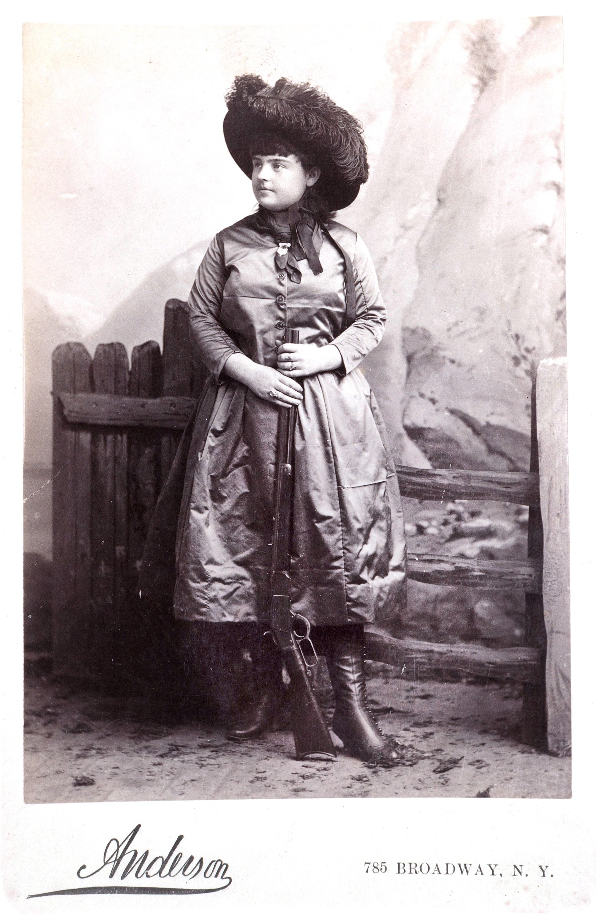 Cabinet Photo, Lillian Smith.